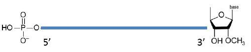 Depiction of a piRNA with the 3' end 2'-O-methylation.